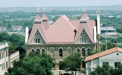 Old Main as seen out of Alkek Library, 7th floor.